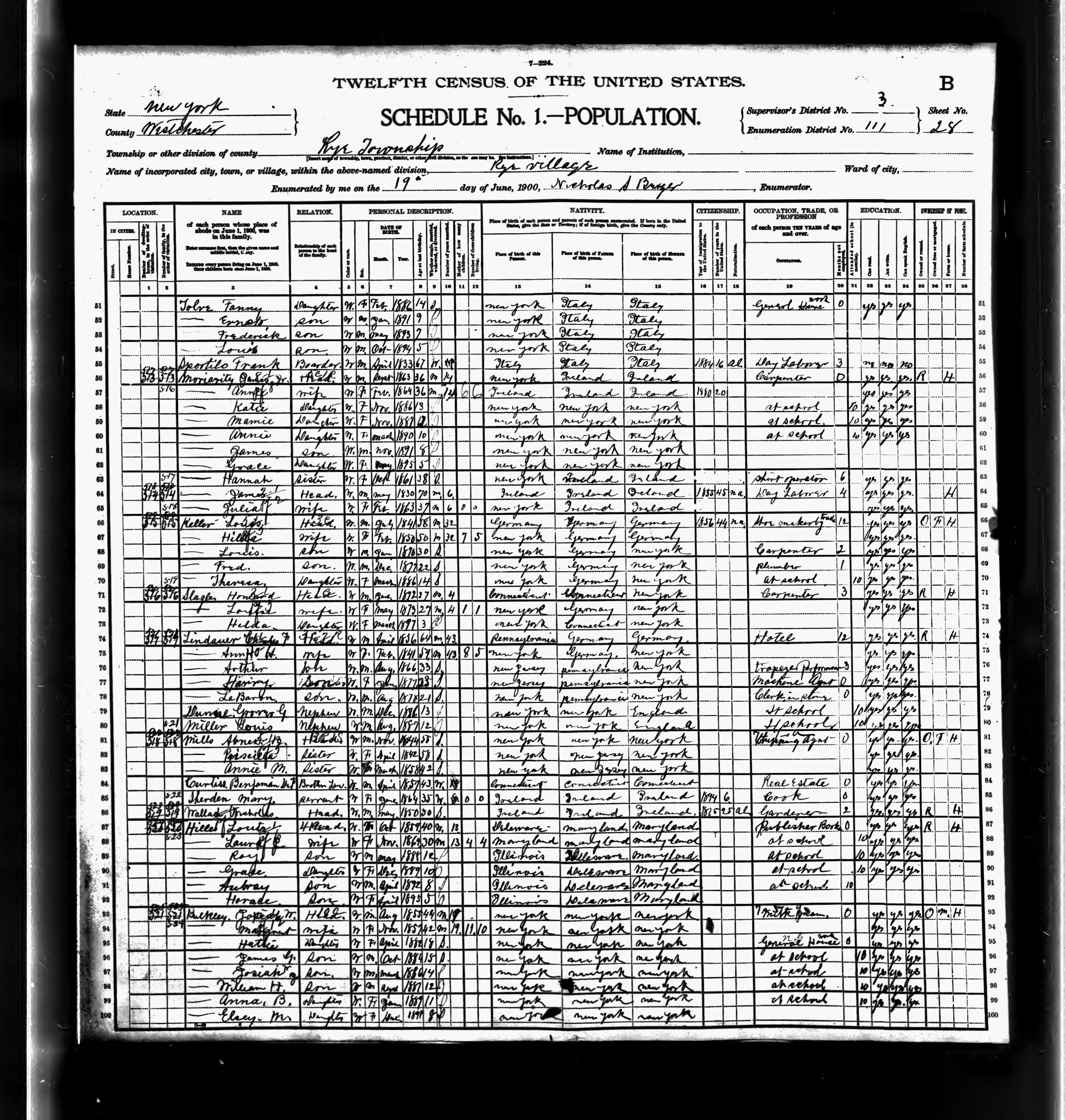 Enumeration District 111, Sheet 28, Line 74 Rye, Westchester County, New York, USA Contents 1 Household 2 Household Interpreted 2.1 Notes 3 Source 4 Licensing 5 Original upload log Household Charles F. Lindauer, head, b. April 1836 in Pennsylvania Anna A. Lindauer, wife, b. February 1841 in New York Arthur Lindauer, son, b. August 1886 in New Jersey Harry Lindauer, son, b. January 1877 in New Jersey LeBaron Lindauer, son, b. August 1878 in New York Grover Dunne, nephew Louis Miller, nephew Household Interpreted Charles Frederick Lindauer I husband of Anna Augusta Kershaw Anna Augusta Kershaw wife of Charles F. Lindauer Arthur Oscar Lindauer child of Charles F. Lindauer and Anna Kershaw Harry Chauncey Lindauer I child of Charles F. Lindauer and Anna Kershaw LeBaron Hart Lindauer child of Charles F. Lindauer and Anna Kershaw Grover Cleveland Lindauer child of Charles Lindauer and Mary Dunne Notes Note: Louis Miller, must be the person identified as the "brother of Grover Lindauer" in a family photo Source: US Census, New York, 1900 Source US Census, New York, 1900